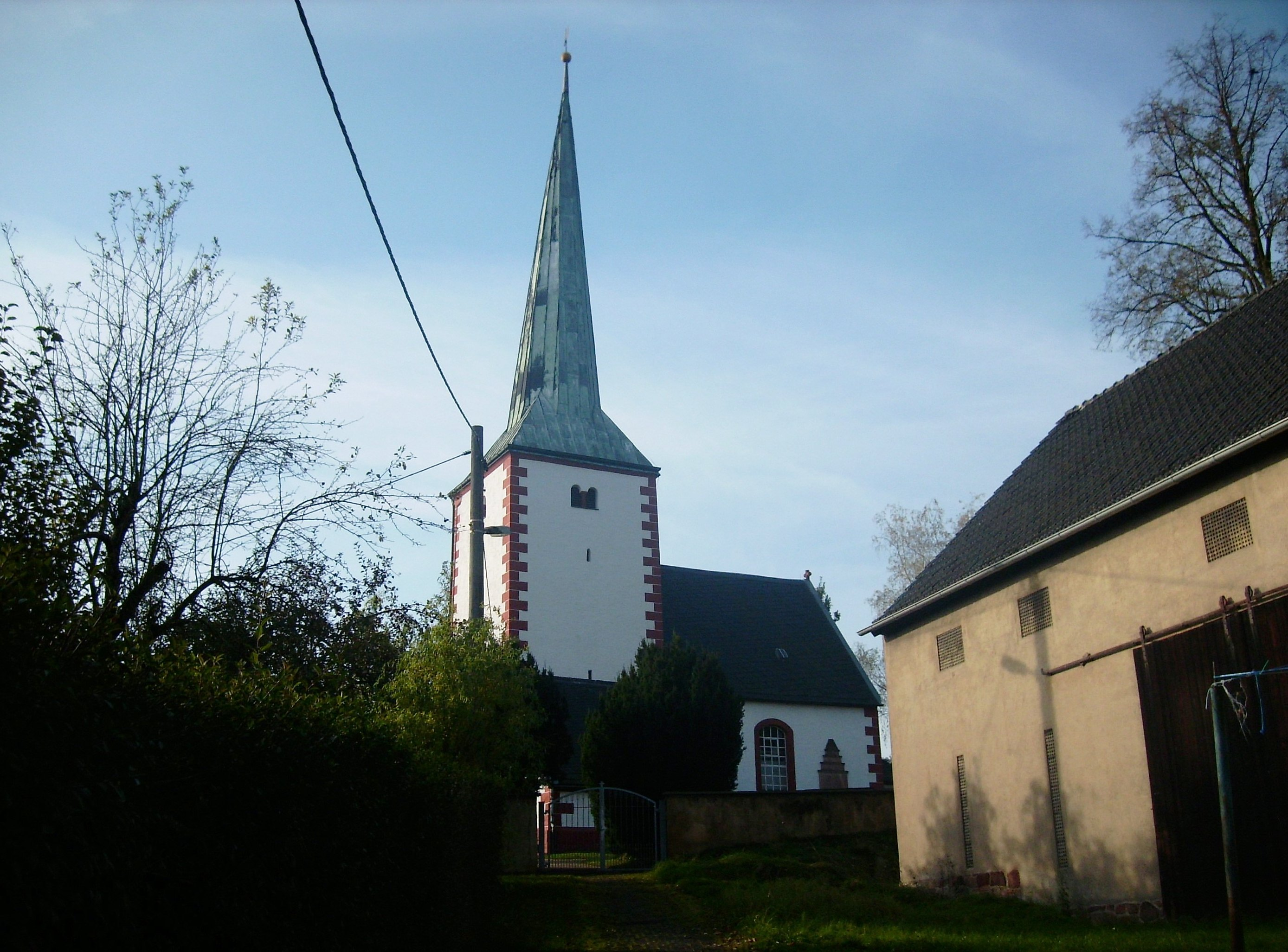 Church of the village of Elsdorf (Lunzenau, Mittelsachsen district, Saxony)